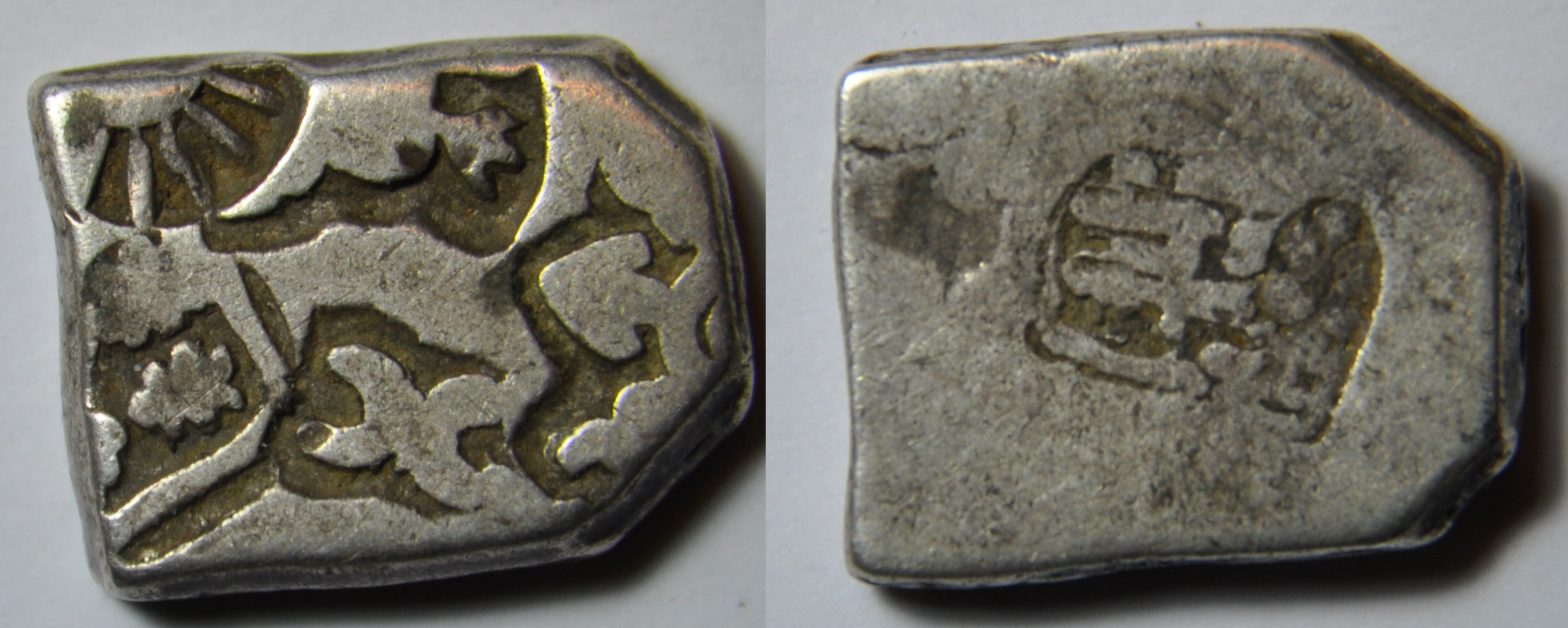 Une monnaie en argent de 1 karshapana de l’empire Maurya, période de Bindusara Maurya vers 297-272 avant J.C., atelier de Pataliputra. A/ Symboles dont un soleil R/ Symbole Dimensions : 14 x 11 mm Poids : 3,4 g. Référence : Mitchiner ACW 4165 Coins of rulers of India A silver coin of 1 karshapana of the Maurya empire, period of Bindusara Maurya about 297-272 BC, workshop of Pataliputra. A / Symbols with a Sun R / Symbol Dimensions: 14 x 11 mm Weight: 3.4 g. Reference: Mitchiner ACW 4165